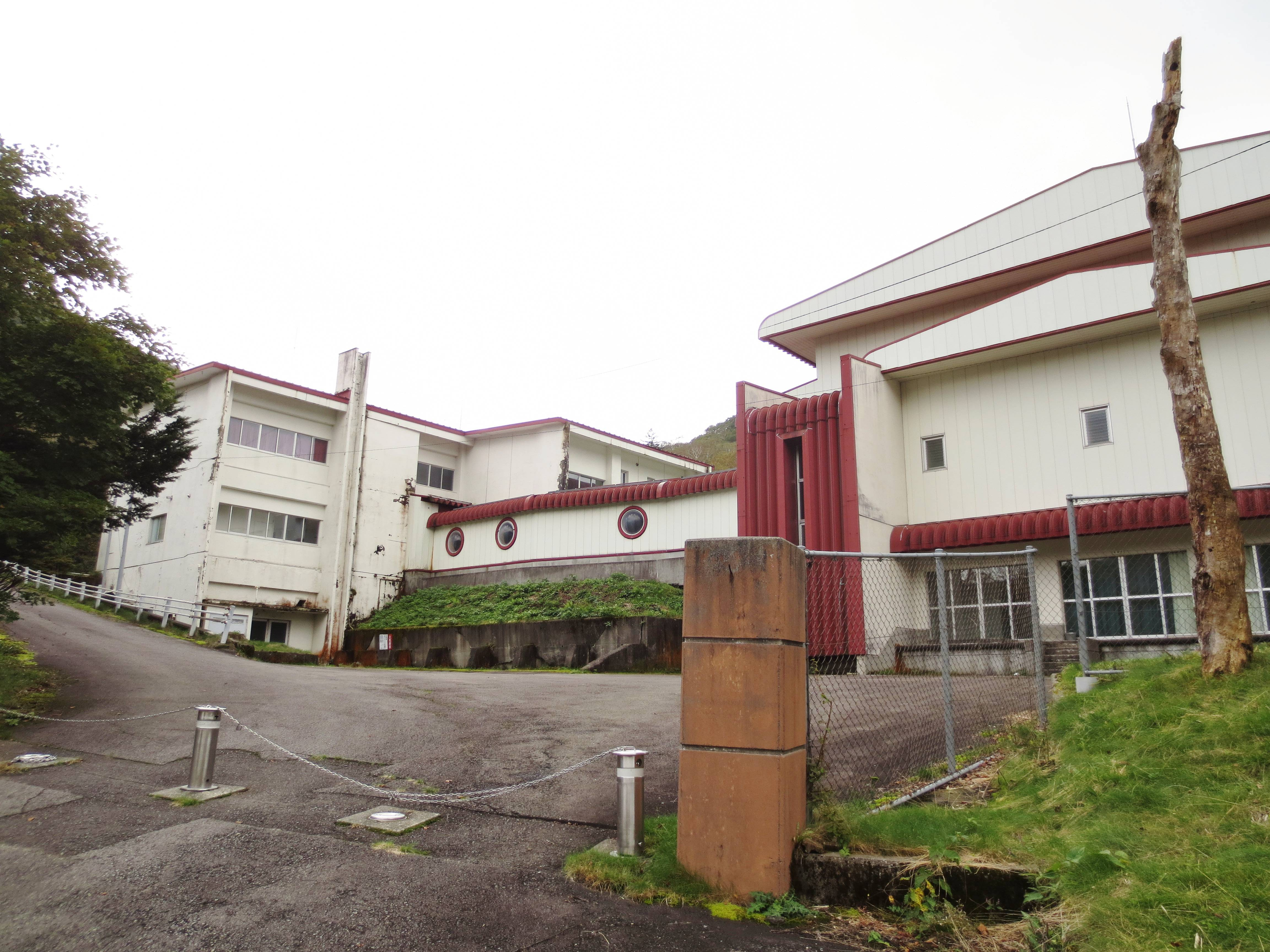 Akagiyama branch school.